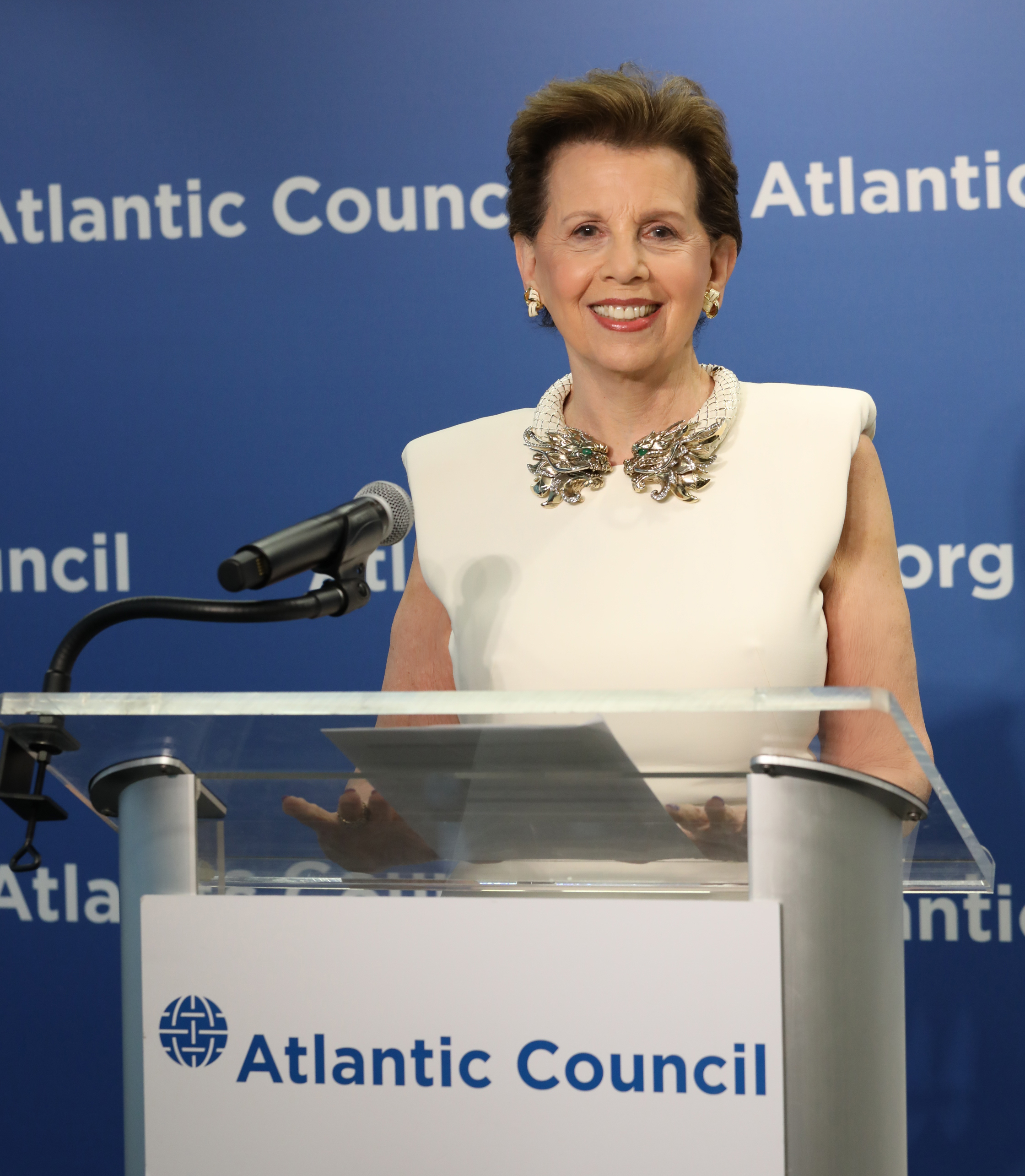 Ms. Arsht receives the Distinguished Service Award from the Atlantic Council.